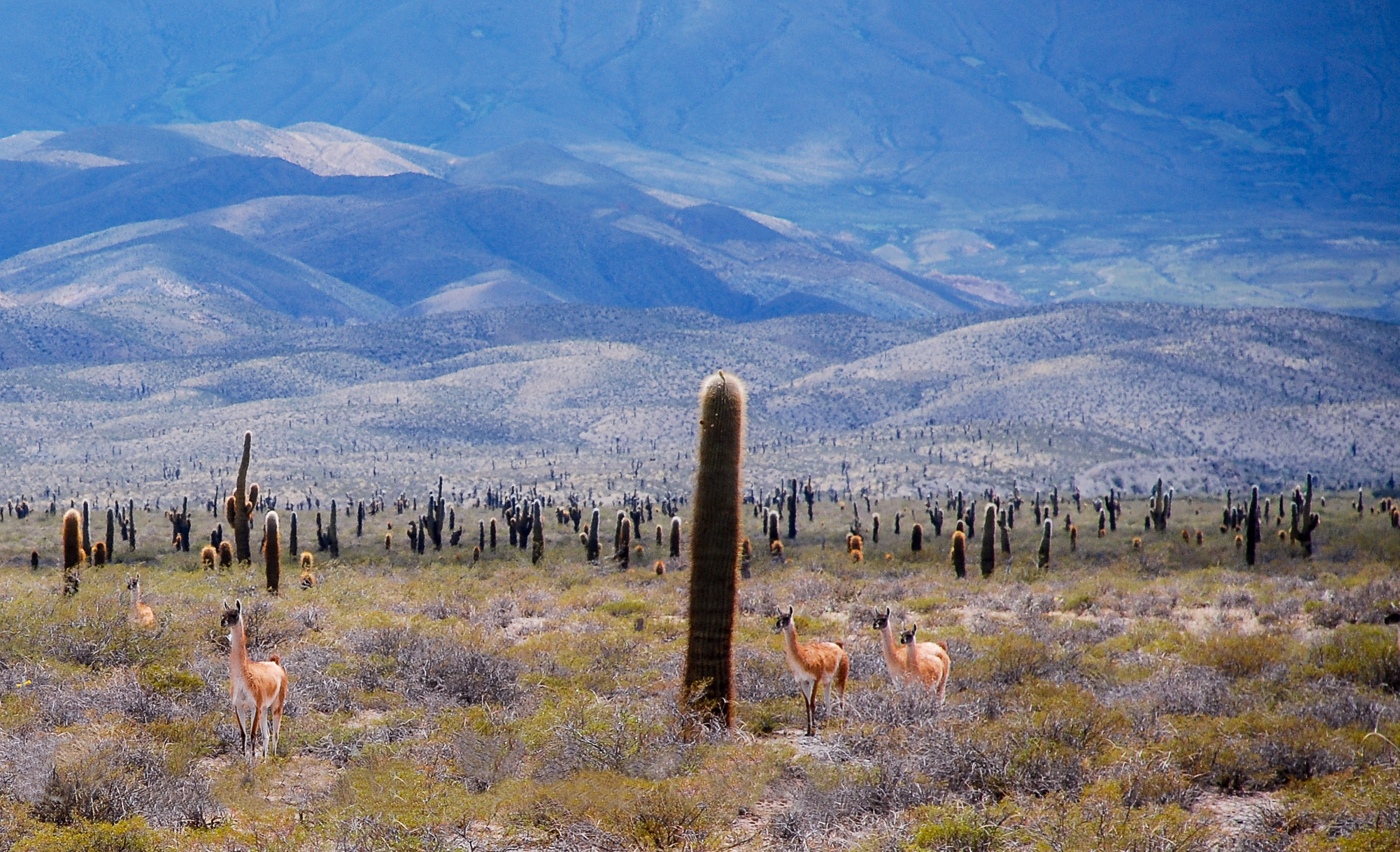 Los Cardones National Park, Salta (Argentina).